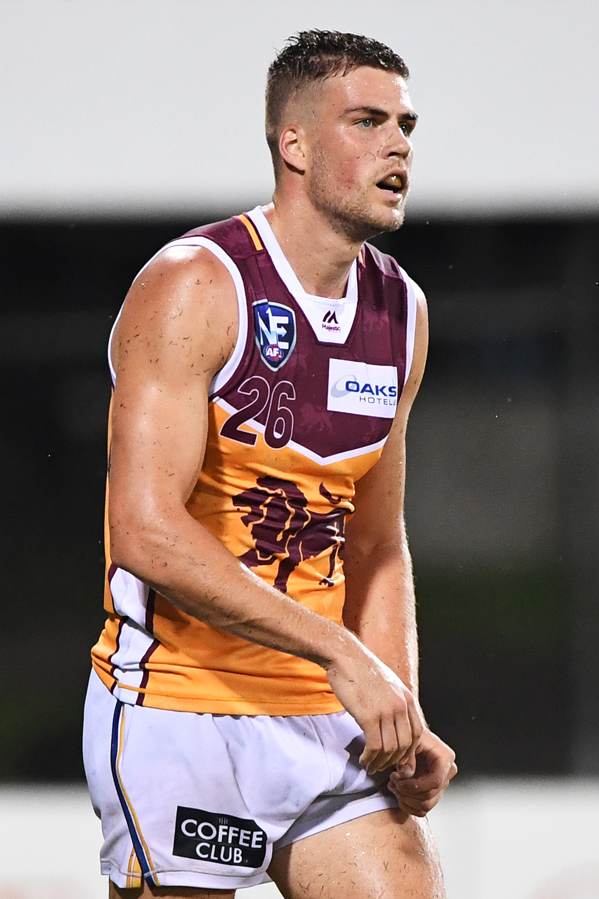 Tom Cutler of the Brisbane Lions during the NEAFL round one match between NT Thunder and Brisbane Lions at TIO Stadium on 6 April 2019 in Darwin, Australia.